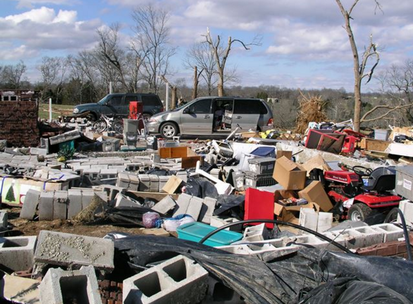 EF3 damage to a block foundation home that was leveled in Castalian Springs, Tennessee.